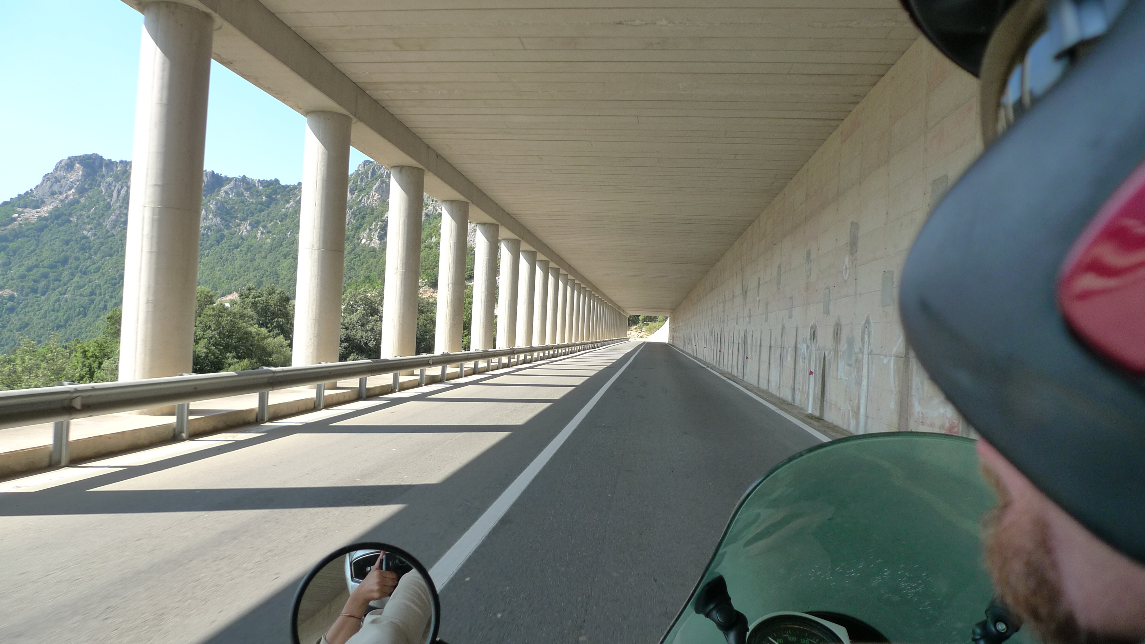 state road ss125 in Sardinia, Italy